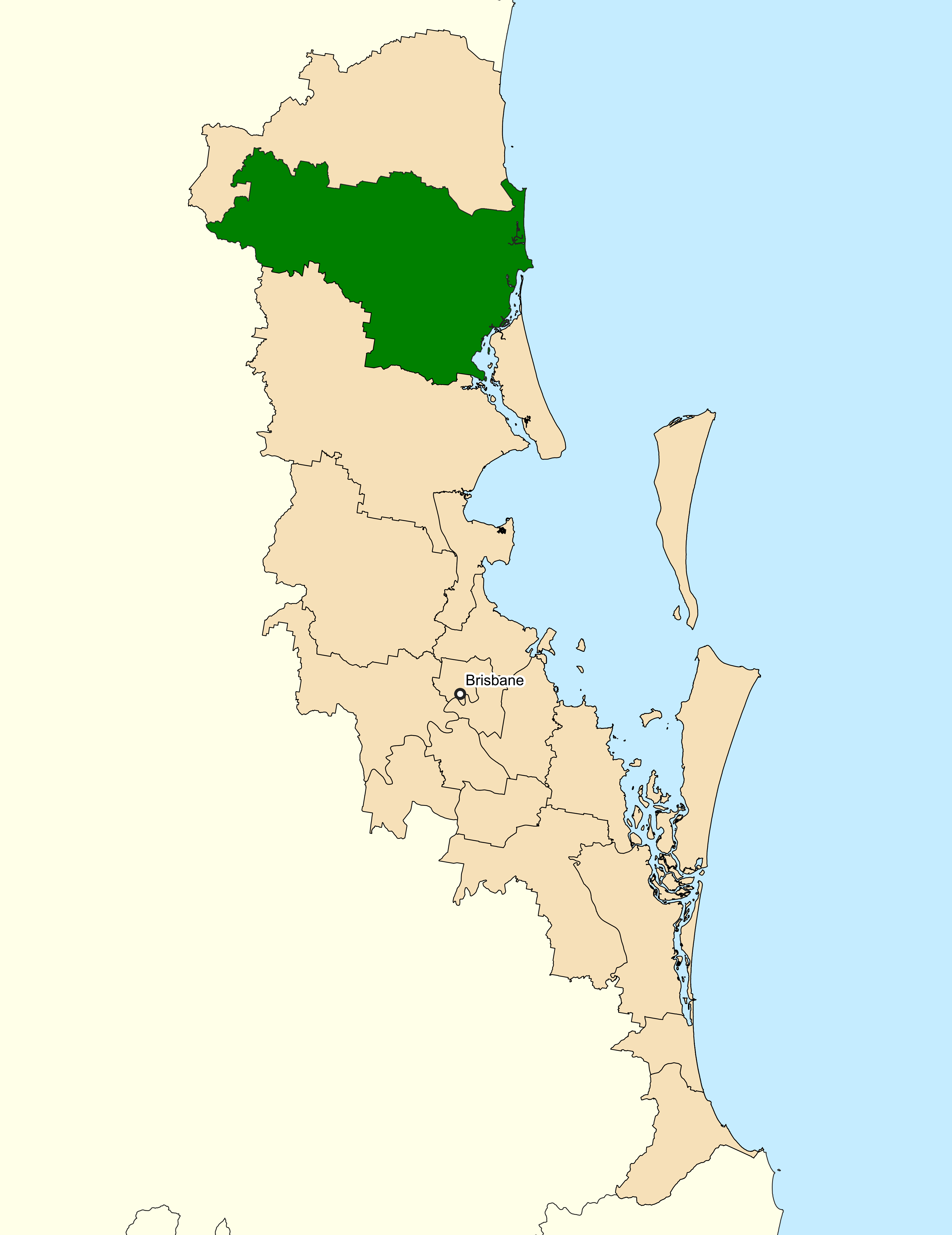 Location of the Australian federal electoral division of Fisher (dark green) in Greater Brisbane, Queensland as of the 2019 Australian federal election. Incorporates or developed using Administrative Boundaries ©PSMA Australia Limited licensed by the Commonwealth of Australia under Creative Commons Attribution 4.0 International licence (CC BY 4.0).